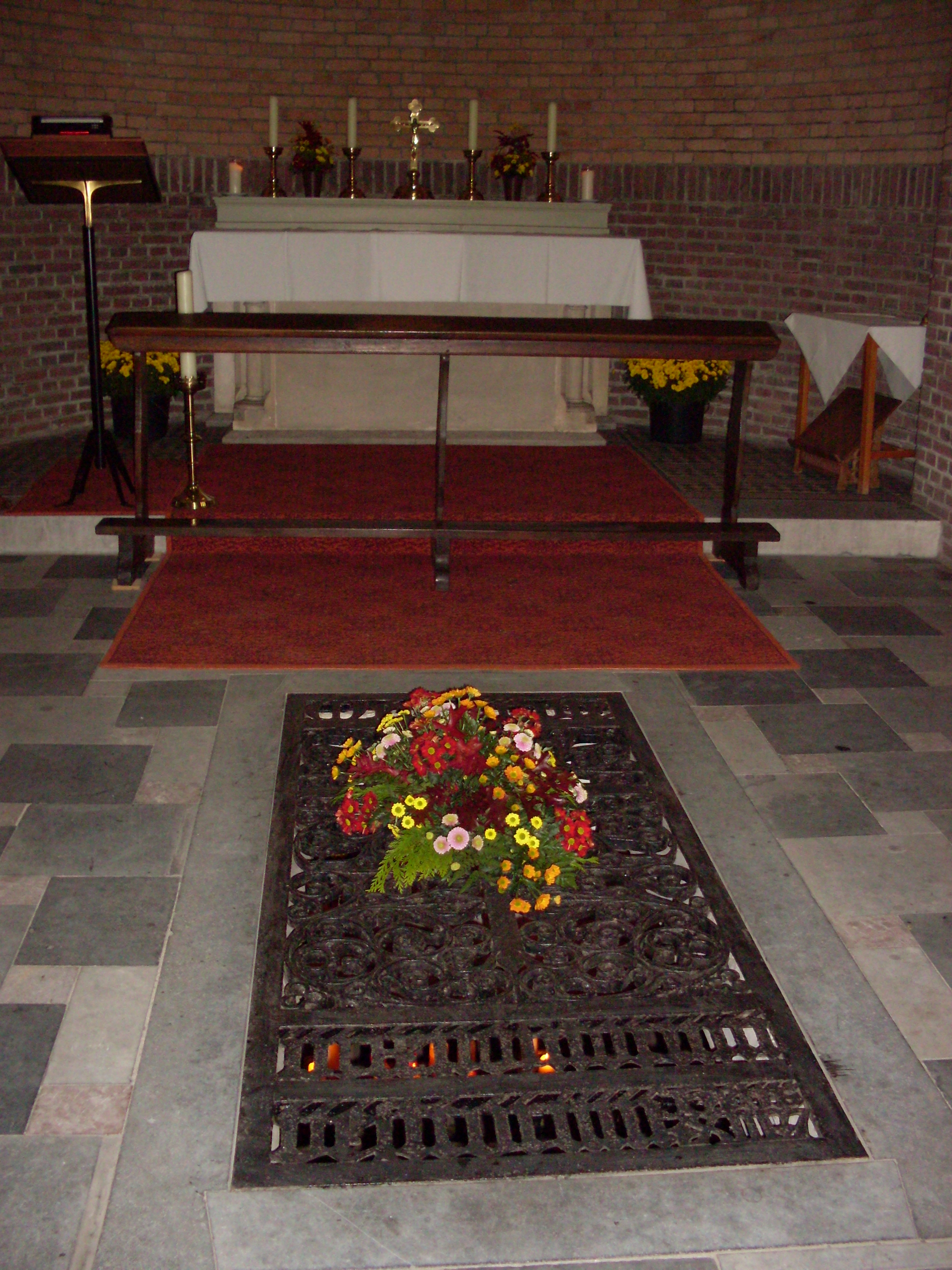 Inside the bishop's chapel Roermond